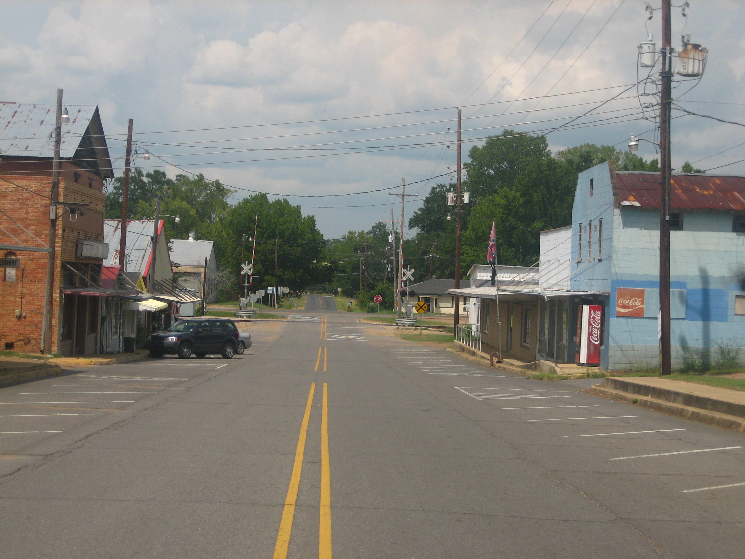 I took photo on Aug. 10, 2008.Billy Hathorn (talk) 23:24, 15 August 2008 (UTC)